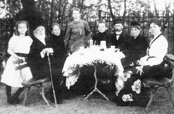 Otto Wilhelm von Struve (1819 – 1905; second left) with the family